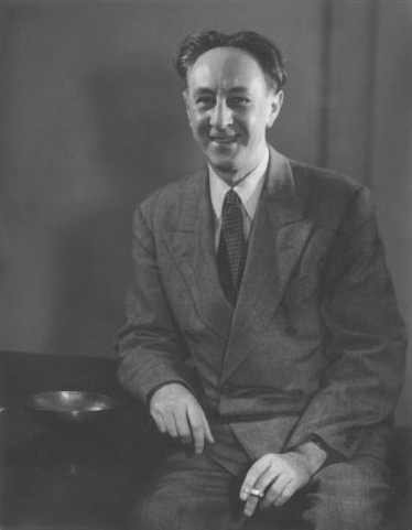 Portrait of Bohuslav Martinů, U.S.A., New York 1945